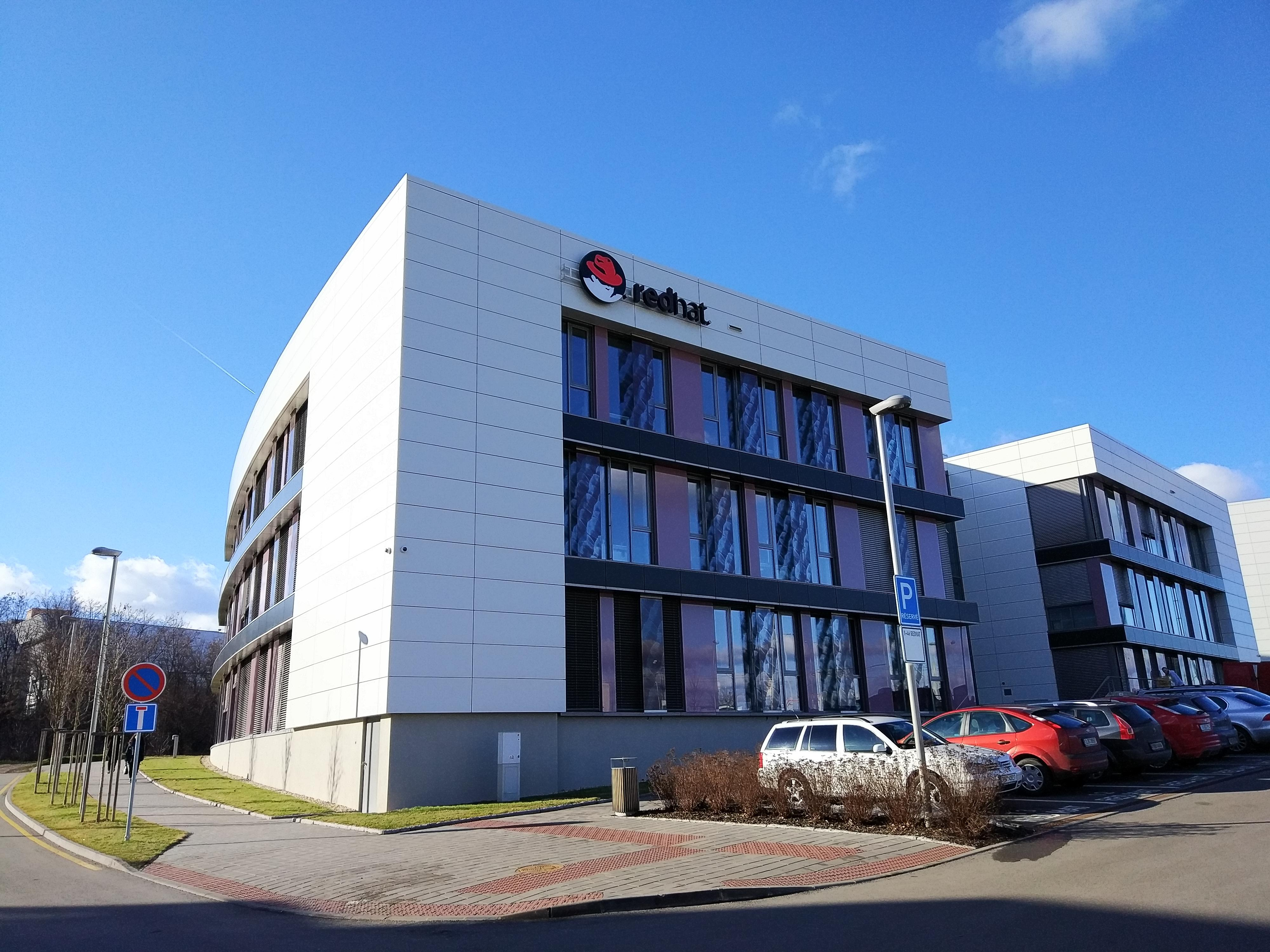 Head Quarter of Red Hat Czech